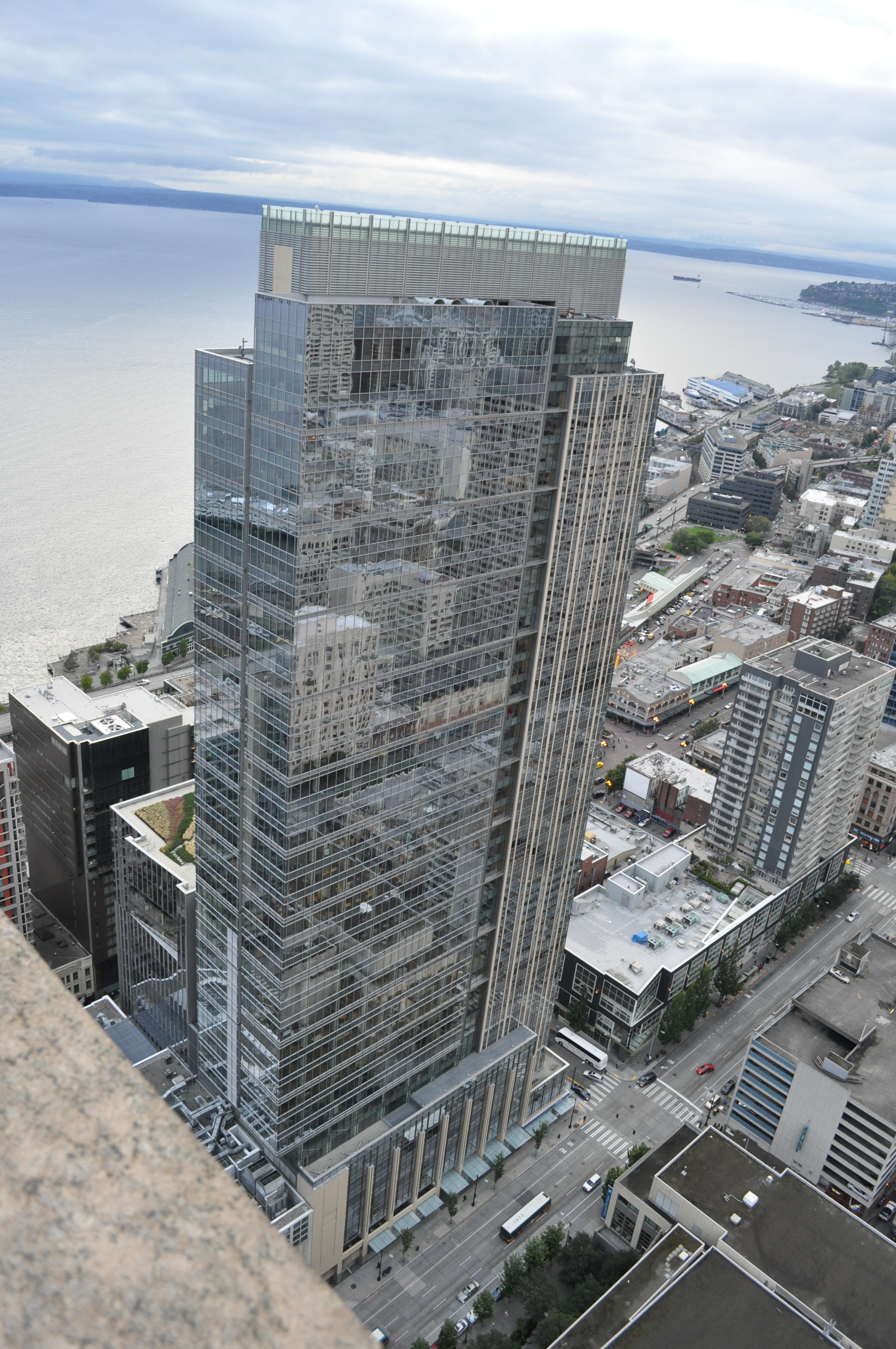 Russell Investments Center. Point of view is the 48th floor of 1201 Third Avenue, Seattle, Washington.